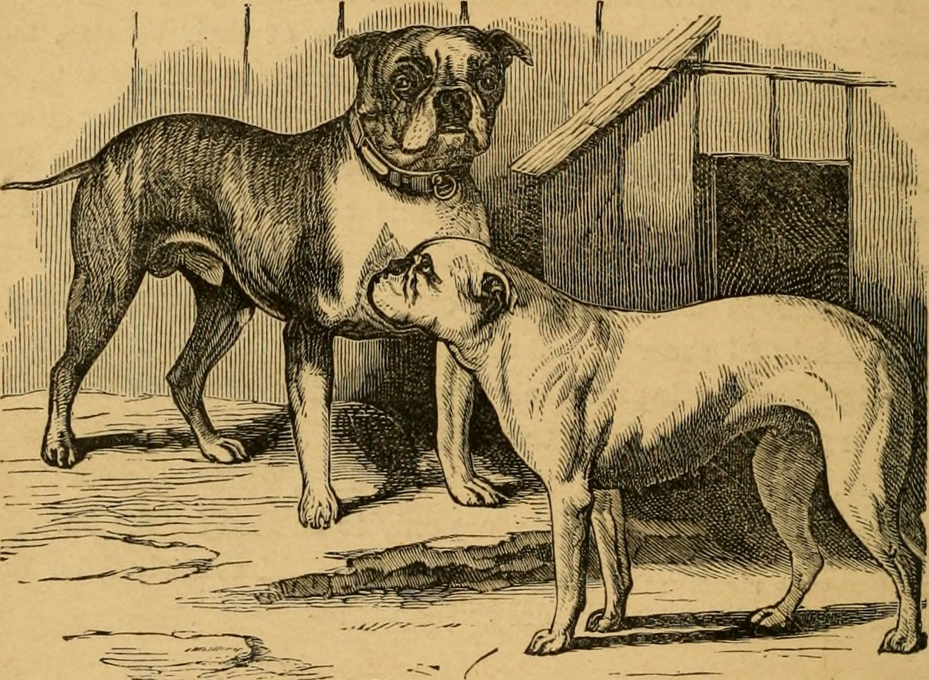 Title: The dogs of Great Britain, America, and other countries. Their breeding, training, and management in health and disease, comprising all the essential parts of the two standard works on the dog Year: 1879 (1870s) Authors: (Walsh, John Henry), 1810-1888. (from old catalog) Subjects: Dog. (from old catalog) Publisher: New York, Orange Judd company Text Appearing Before Image: 142 WATCH DOGS, HOUSE DOGS, A^D TOY DOGS. zygomatic arches and cheek-bones, is so much larger than that of the spaniel of the same total weight of body, that the brain may well look small as it lies in the middle of the various processes in- tended for the attachment of the strong muscles of the jaw and neck. I have never been able to obtain the fresh brain of a pure bulldog for the purpose of comparison, but, from an examination of the skull, I have no doubt of the fact being as above stated. The mental qualities of the bulldog may be highly cultivated, and Text Appearing After Image: Fig. 28.—BULLDOGS, SMASHER AND SUGAR. in brute courage and unyielding tenacity of purpose he stands un- rivalled among quadrupeds, and with the single exception of the game-cock, he has perhaps no parallel in these respects in the brute creation. Two remarkable features are met with in this breed : First, they always make their attack at the head; and, secondly, they do not bite and let go their hoid, but retain it in the most tenacious manner, so that they can with difficulty be removed by any force which can be applied. Instances are recorded in which bulldogs have hung on to the lip of the bull (in the old days of baitr